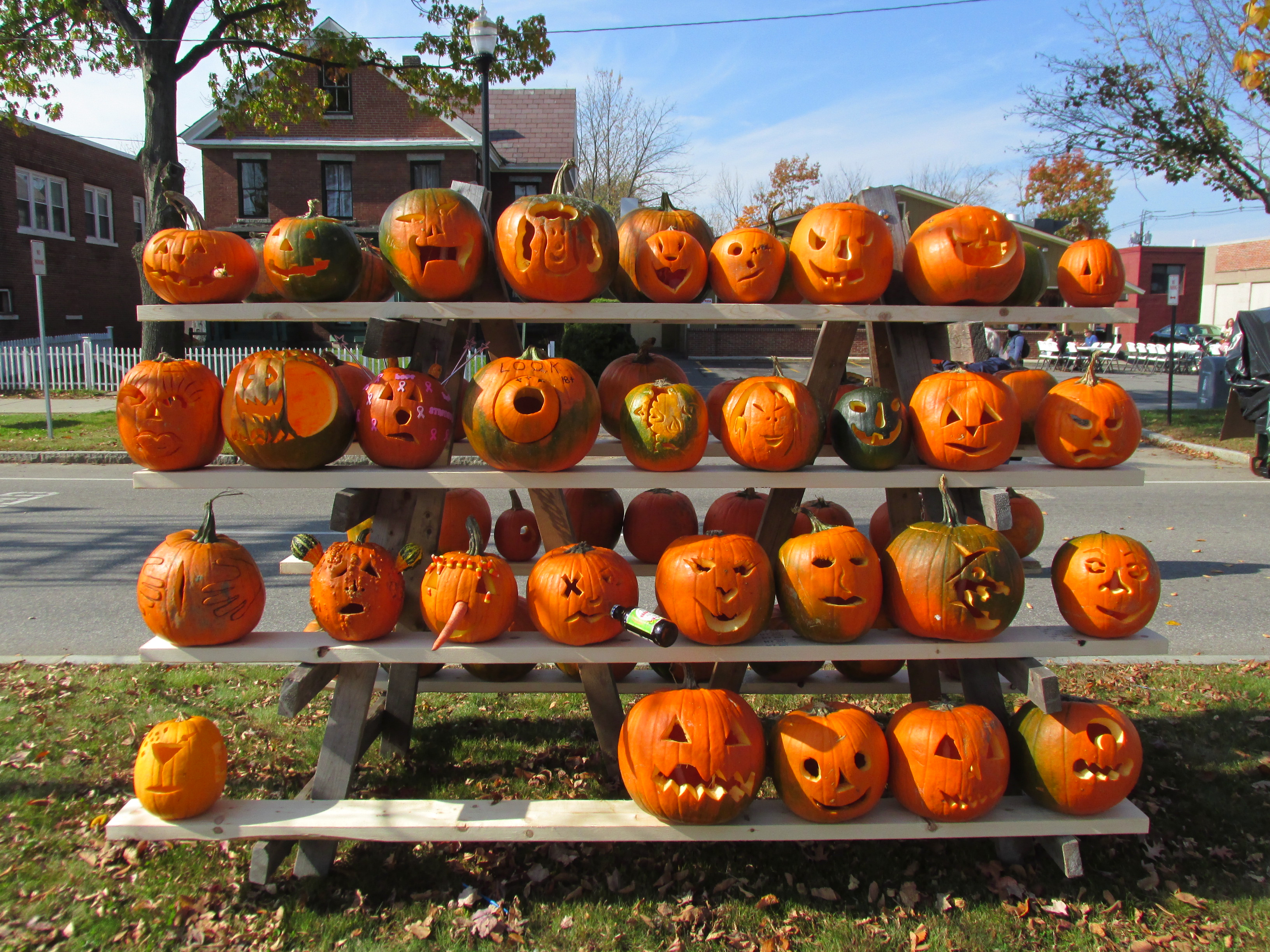 Rack of pumpkins, Keene New Hampshire